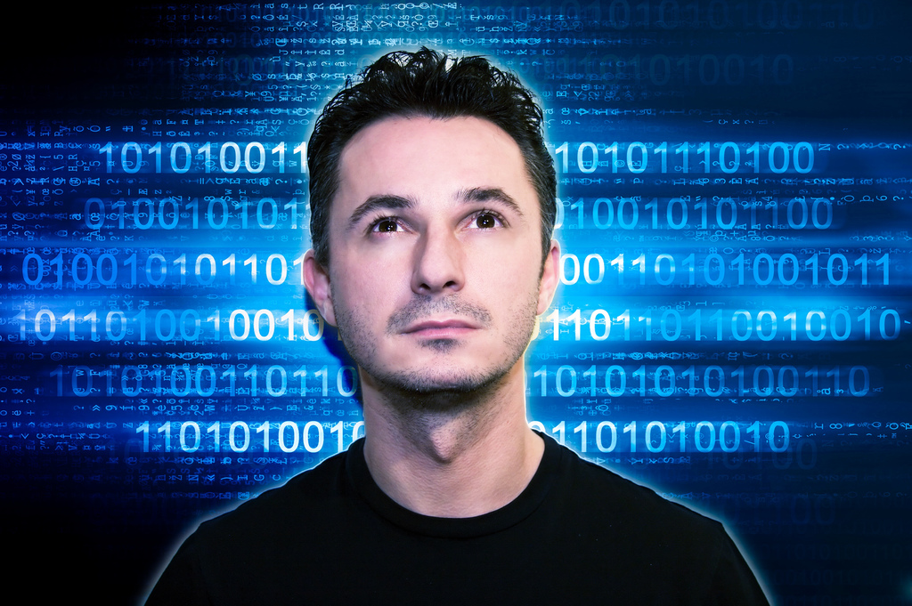 Marco Tempest, an American magician based in New York City.